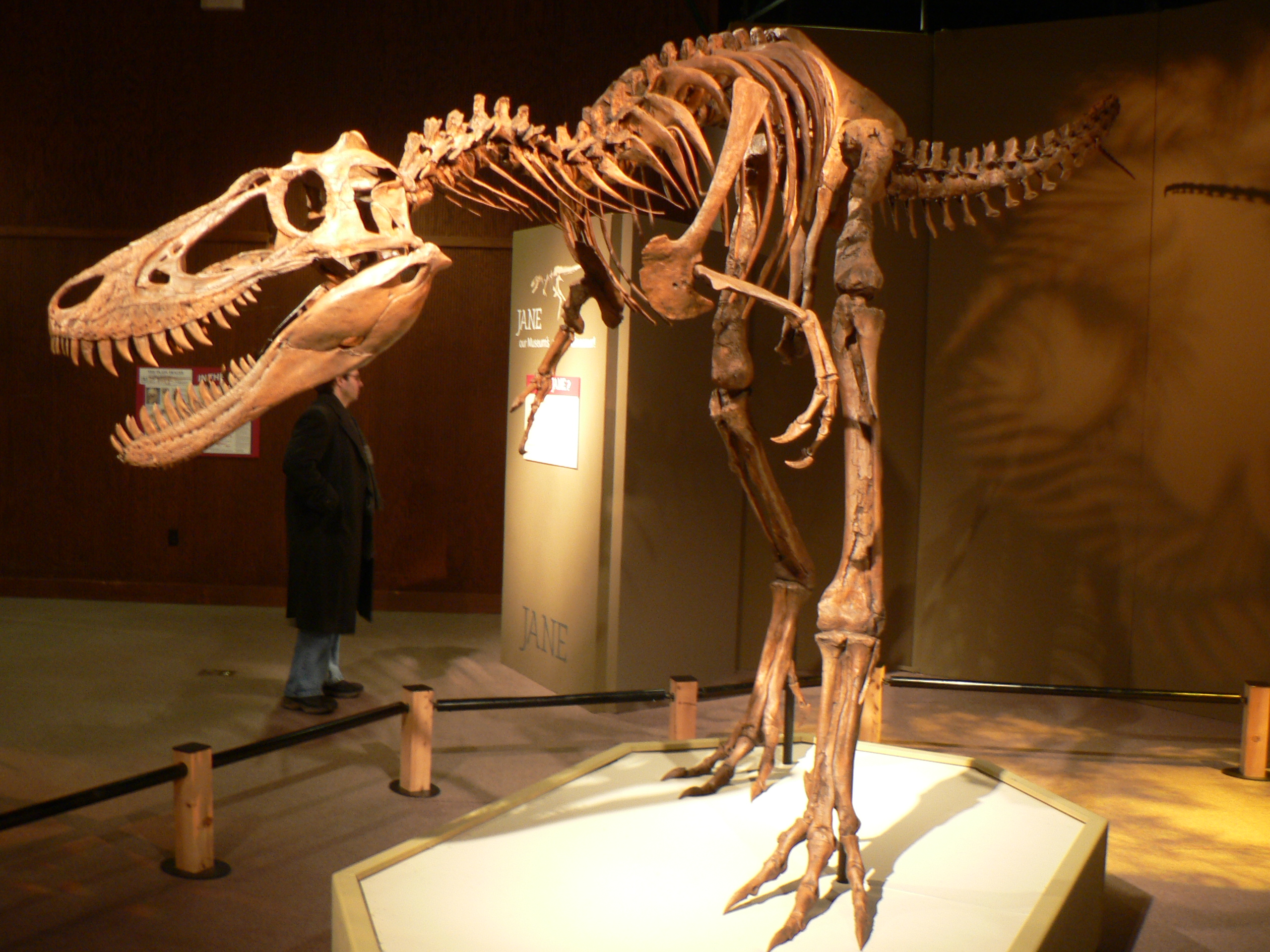 specimen of small tyrannosaurid (Nanotyrannus lancensis or a juvenile Tyrannosaurus rex)